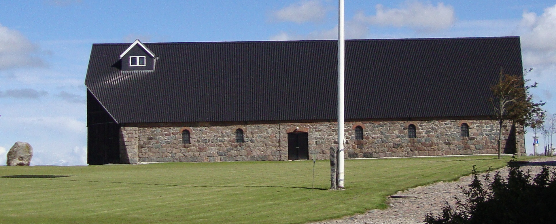 This stone house is a part of Asdal Manor in Hjørring Kommune, Vendsyssel, Denmark.